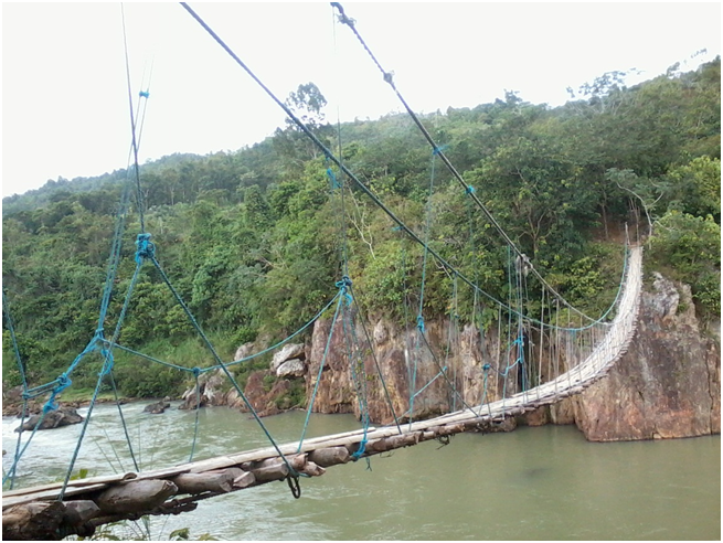 Inangtan Hanging Bridge connects the two areas separated by Sagay’s Himogaan River.Tagalog: Pinag-uugnay ng Inangtan Hanging Bridge and dalawang lugar na pinaghiwalay ng Sagay Himoga-an River